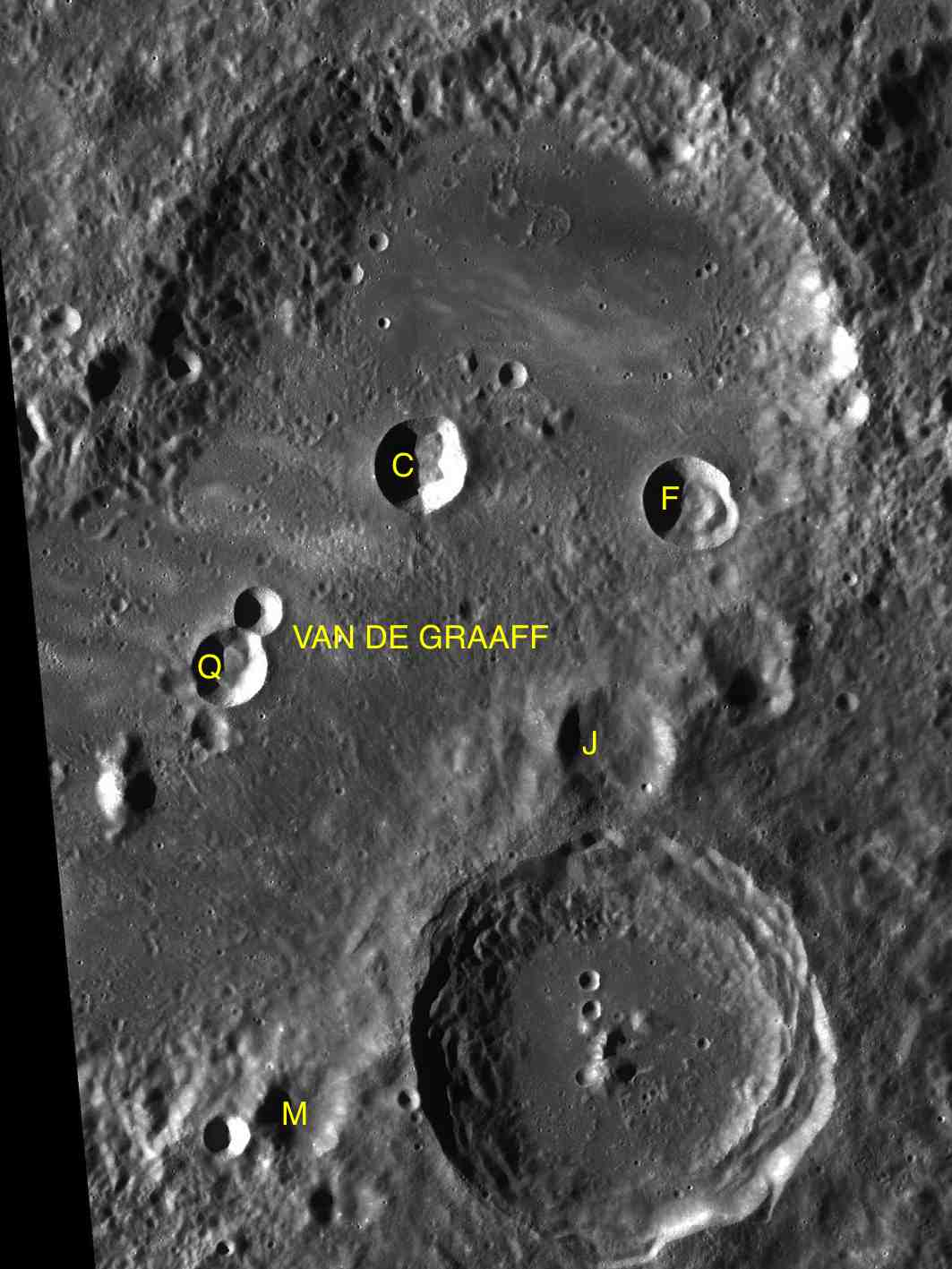 Part of the chart LAC-104 used for the presentation